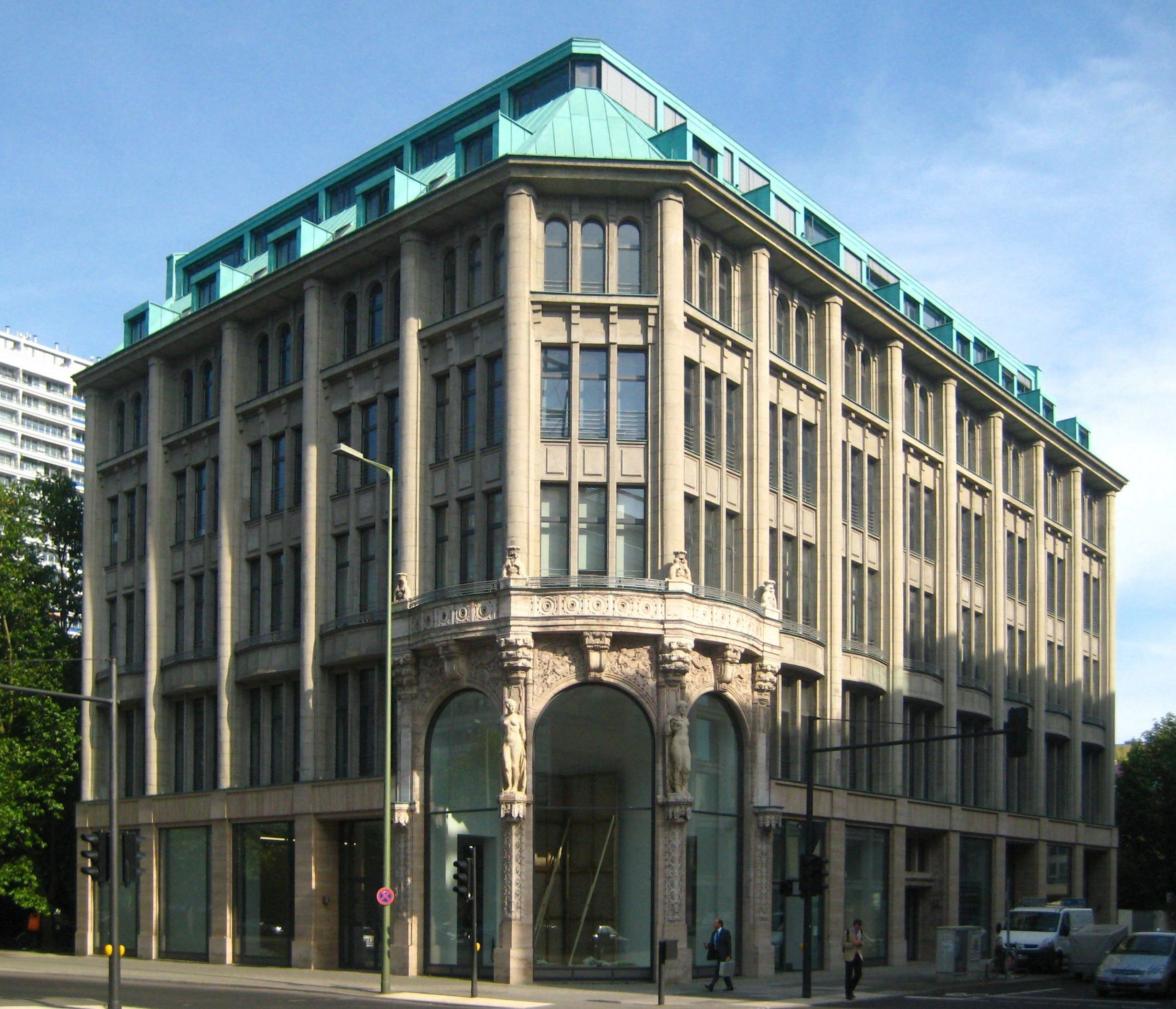 The former "Ladies' Fashion House Kersten und Tuteur", now called "Tuteur House", at Leipziger Straße 36, corner of Charlottenstraße (on the right) in Berlin-Mitte. The house was built in 1886 and received its present-day outlook during reconstruction in 1913. The achitecture critics praised the design by Hermann Muthesius who gave the building a richly ornamented tripartite two-story display window at the corner and a column facade typical for its time. The building was damaged in WWII and the facade was later reconstructed in a simplified fashion. In recent years, the original outlook of the building has been restored, which includes the sculptures of two females at the corner columns, originally created by sculptor Andreas Höfer. The building has been designated as a historic landmark.